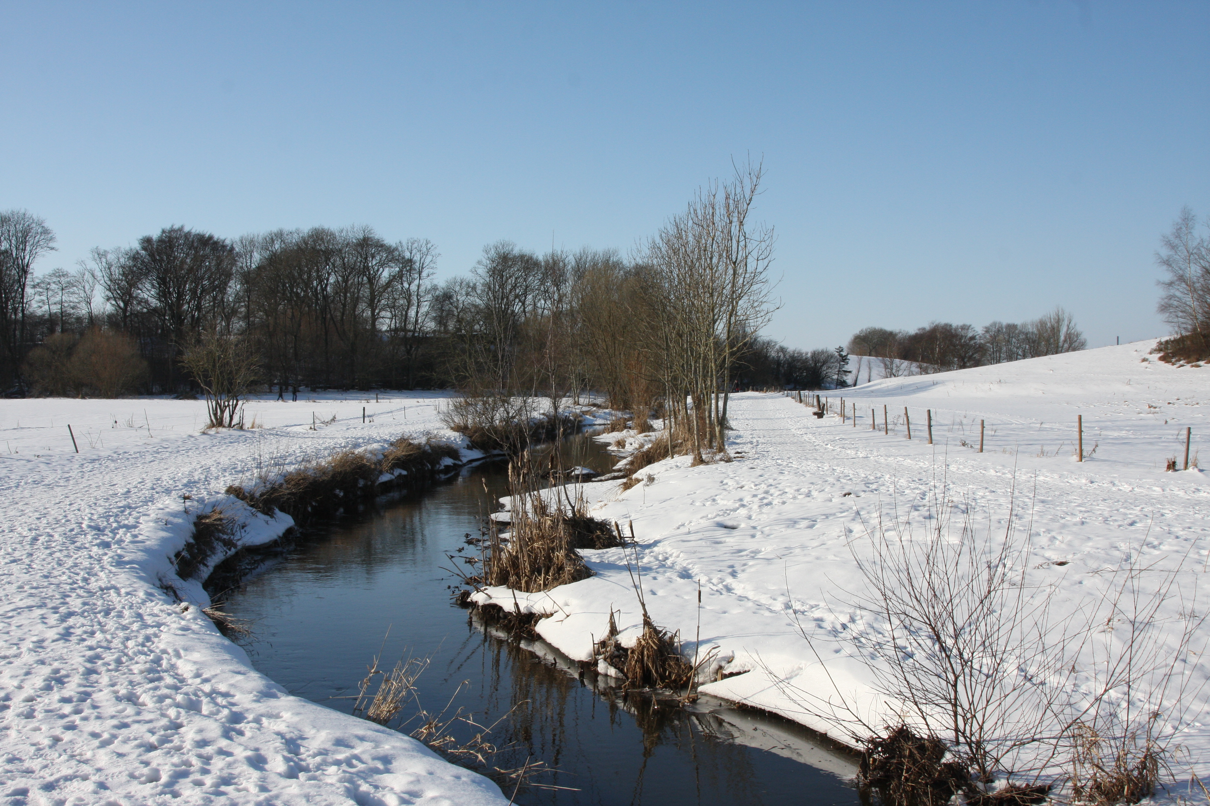 Stavids/Stavis River in Odense, Denmark, on winter day before it was "re-winded".